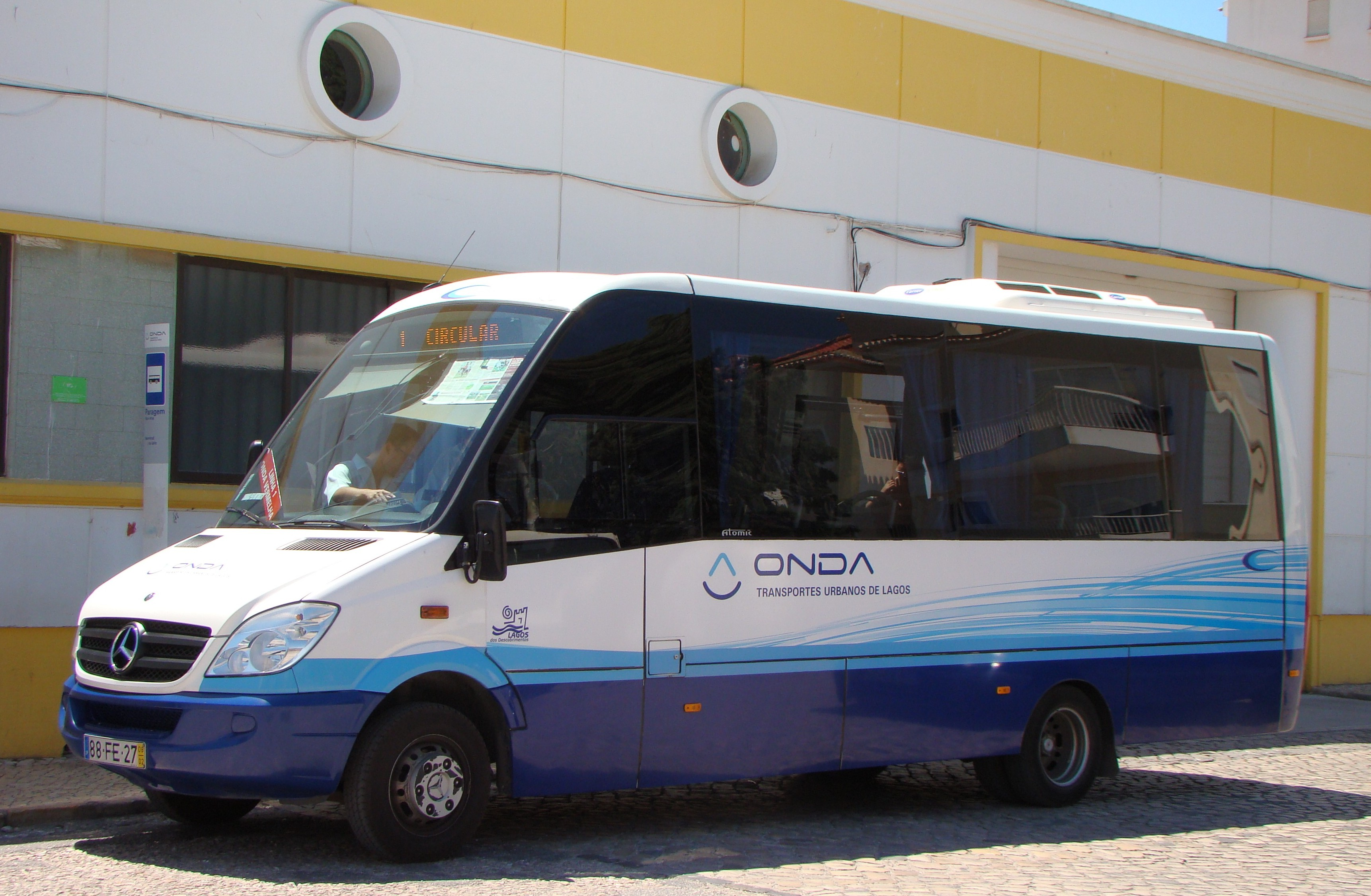 A Onda